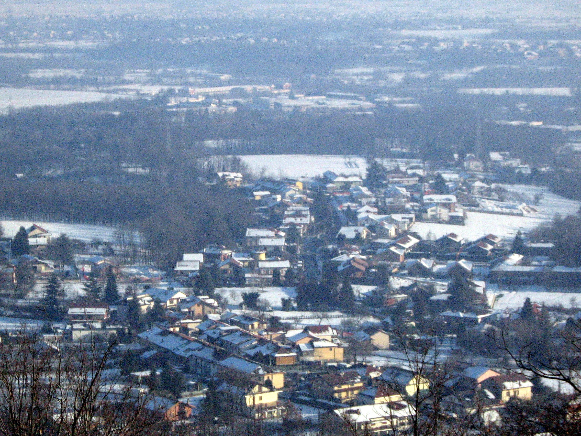 A panoramic view of Givoletto, the Forvilla zone.